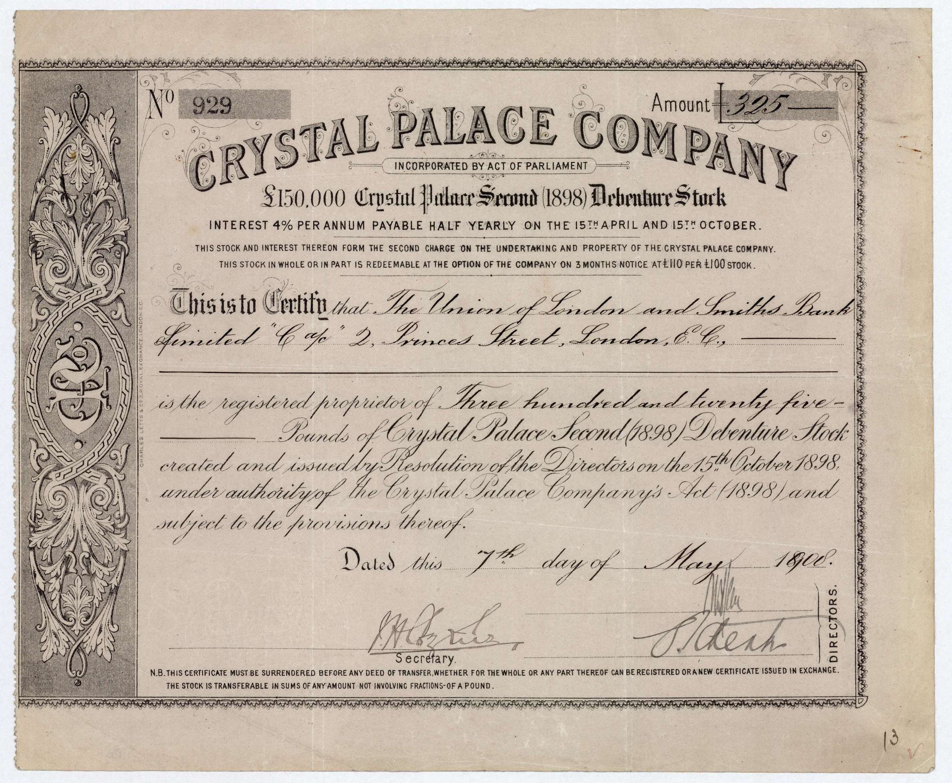 Debenture stock of the Crystal Palace Company, issued 7. May 1908